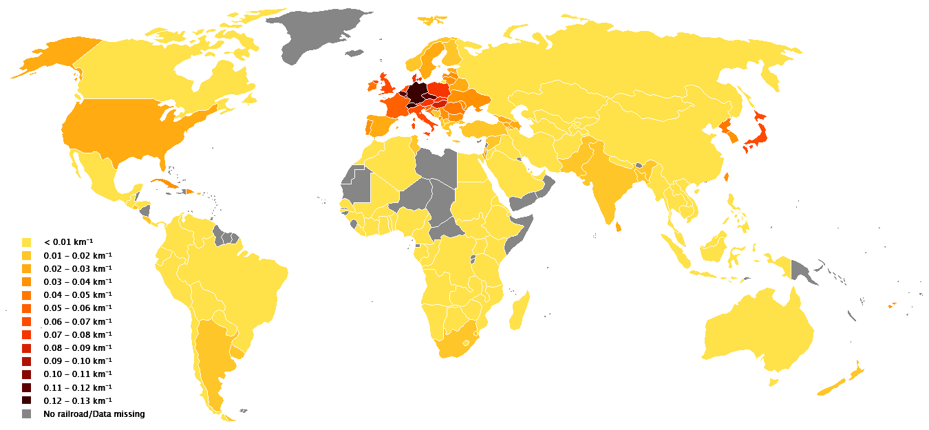 Blank world template from Wikimedia Commons, data from List of countries by rail transport network size and Countries_by_area Compiled by User:GSchjetne